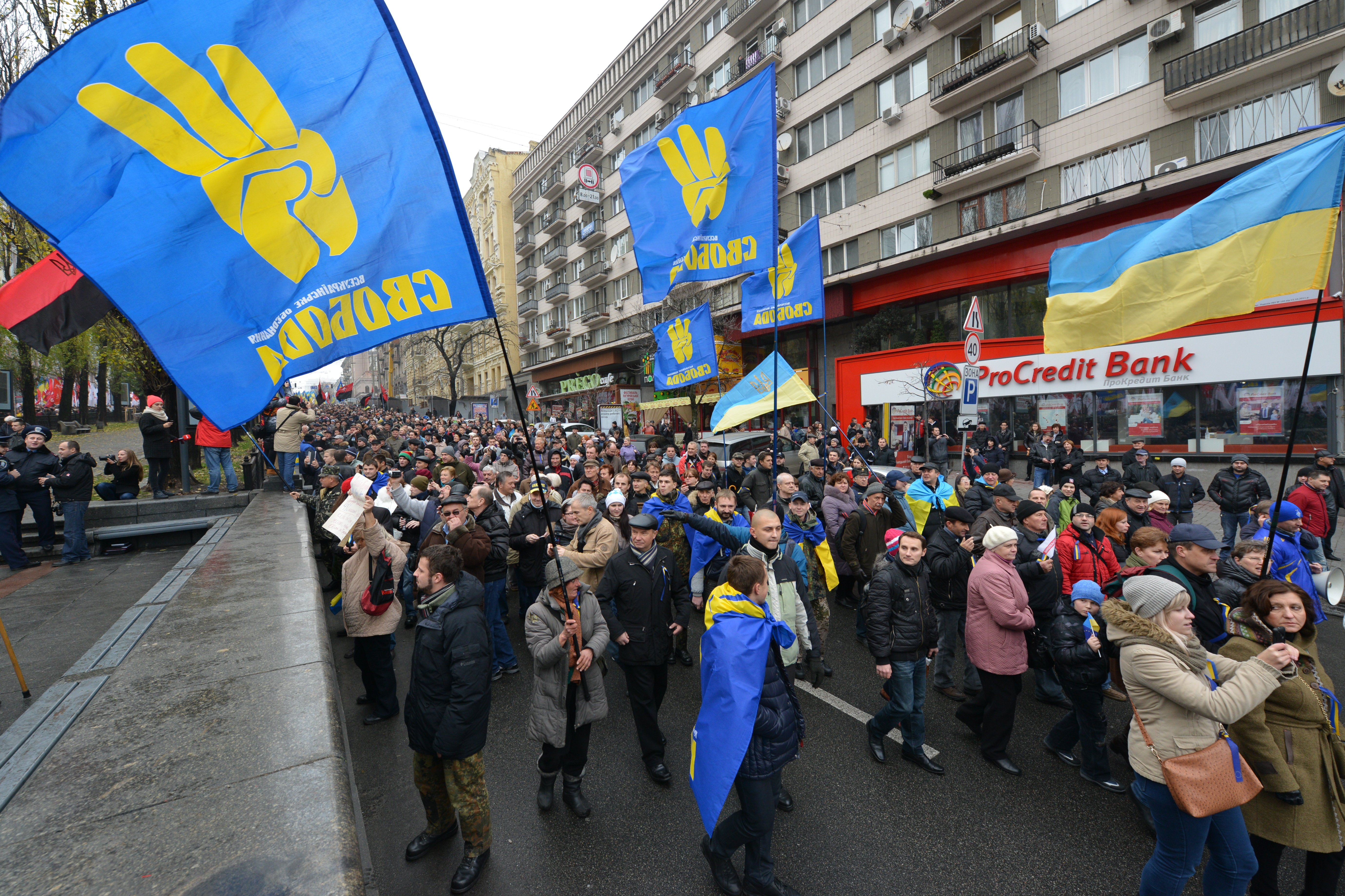 A massive pro-EU rally in Kiev on 24th of November when people marching towards the rally on European square (2013)